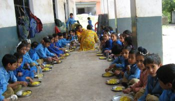 Midday Meal Scheme children at primary school